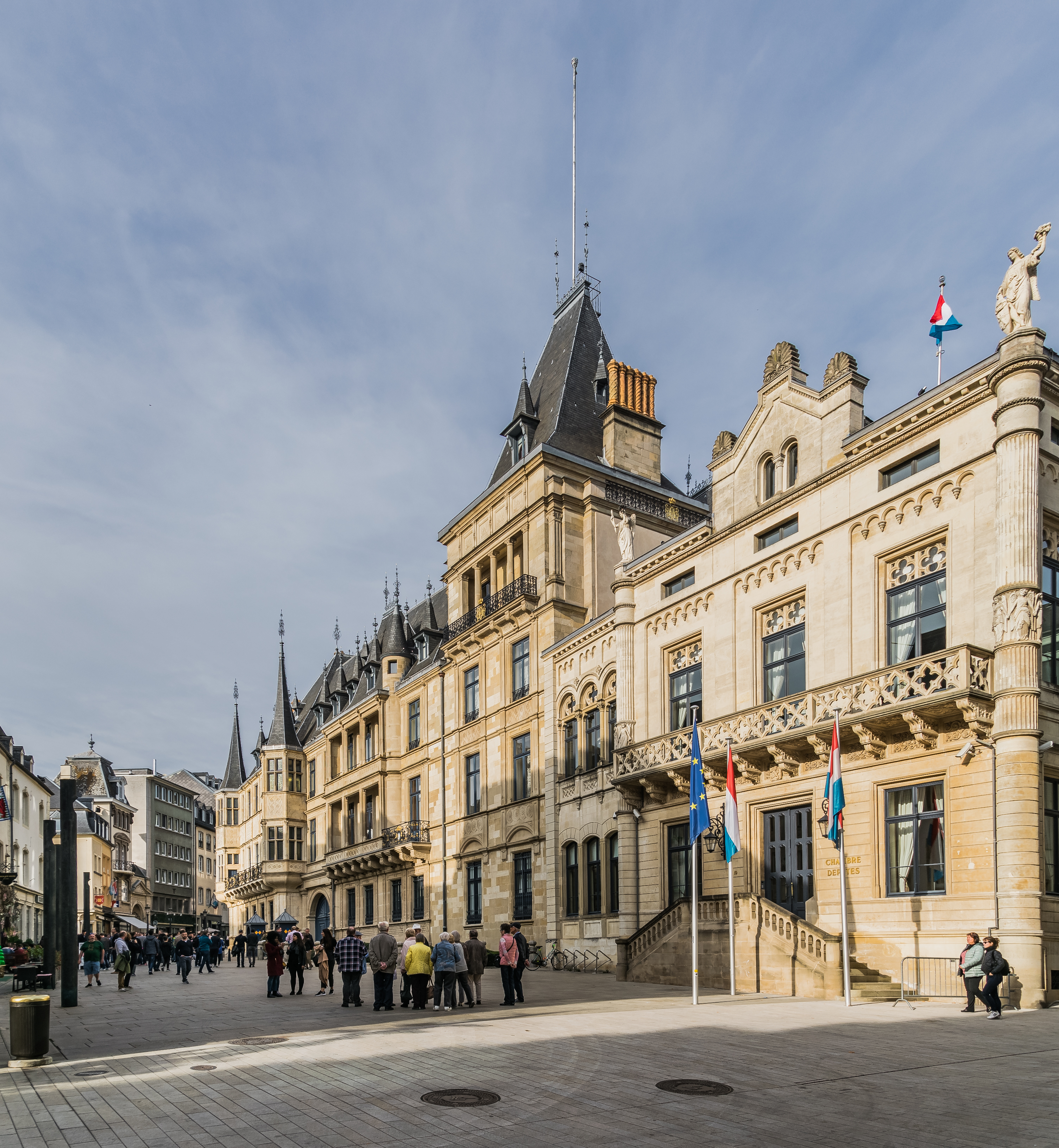 Grand Ducal Palace and Chamber of Deputies (Parliament) in Luxembourg City, Luxembourg